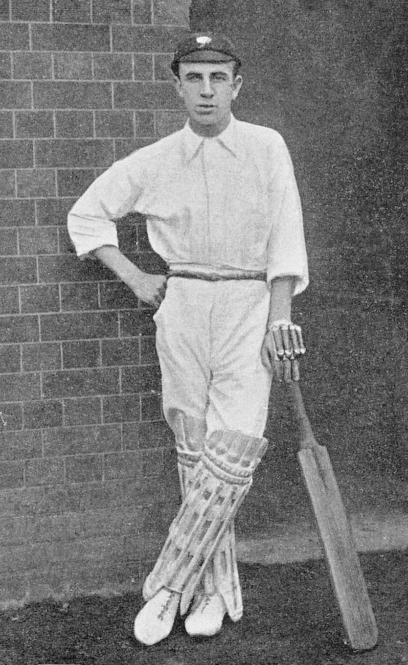 Scan of cricketer David Denton